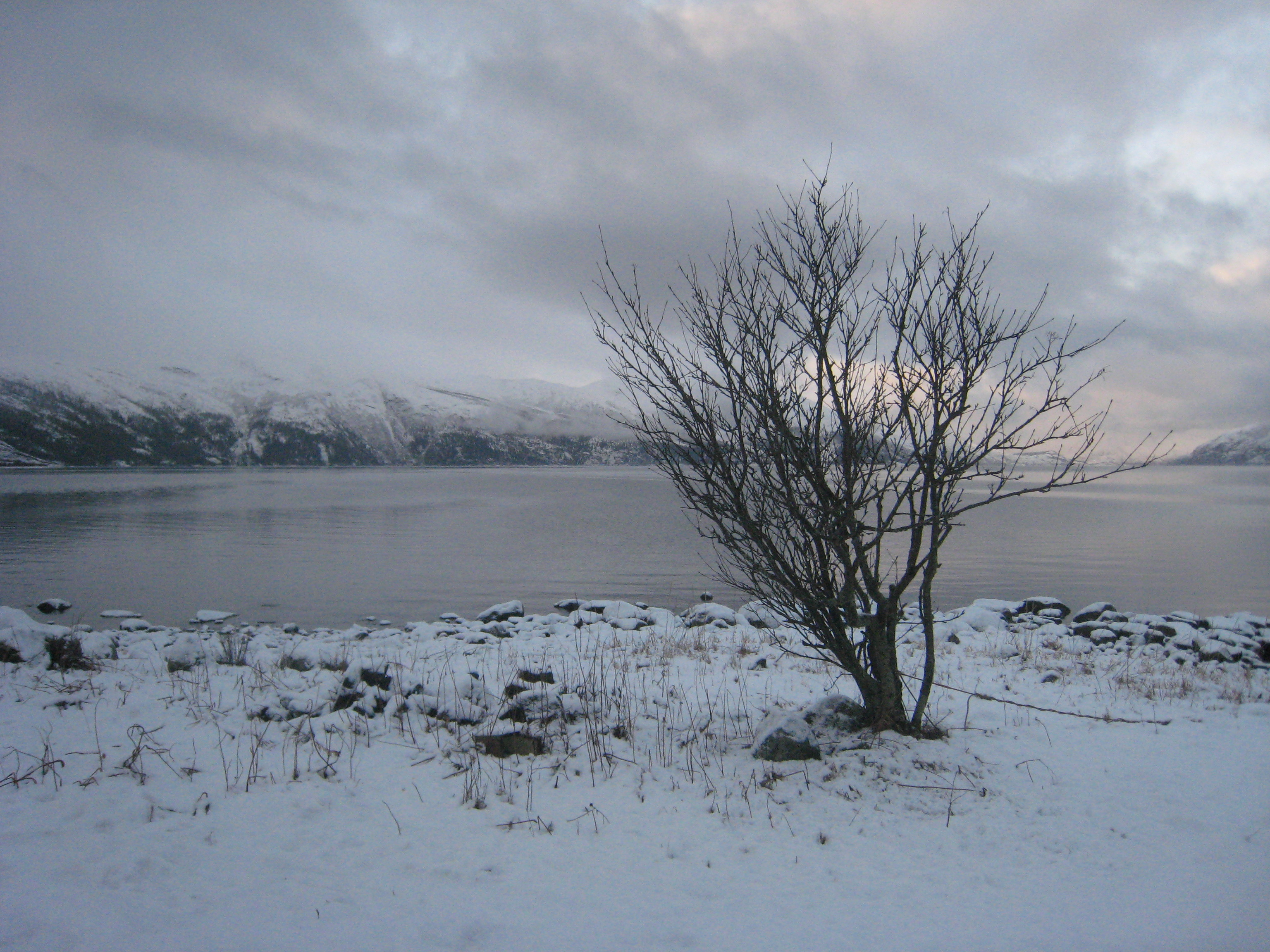 The Vefsnfjord seen from Skaland. Cold winter day. Unknown year.